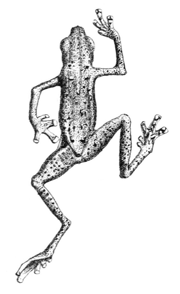 Nectophryne guentheri = Pelophryne guentheri